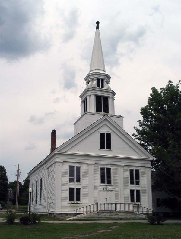 Description: Photograph of church in Middletown Springs, Vermont Source: Photograph taken by Jared C. Benedict on 01 July 2004. Copyright: © Jared C. Benedict.